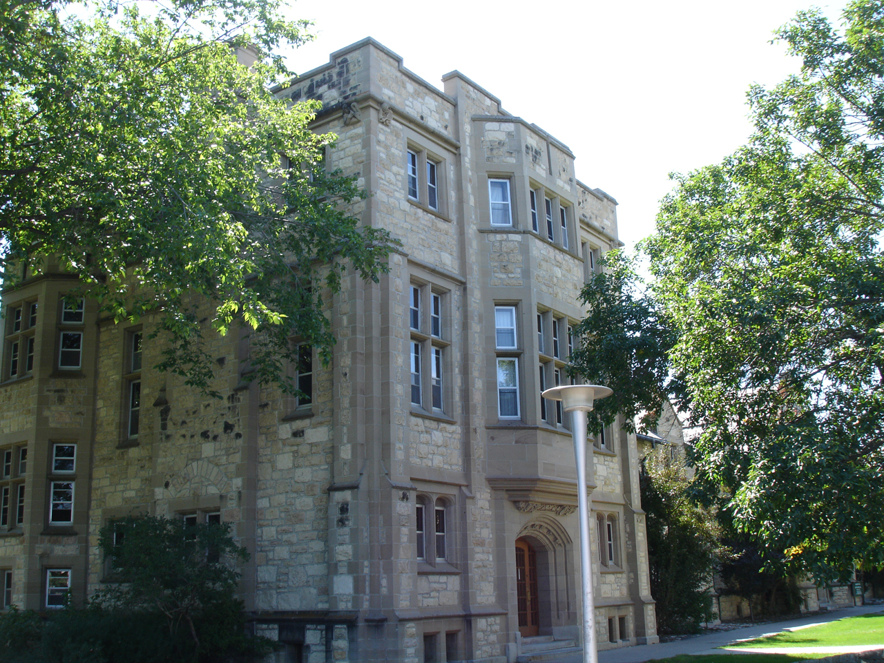 Saskatchewan Hall, the original student residence at the University of Saskatchewan, built in 1912.